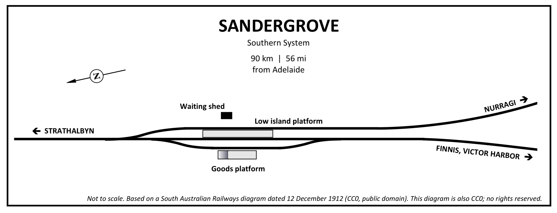 A drawing of the railway station yard on the Strathalbyn–Victor Harbor line (South Australia) at Sandergrove, where the line to Milang starts, in 1912. The drawing is based on a South Australian Railways drawing in the public domain.